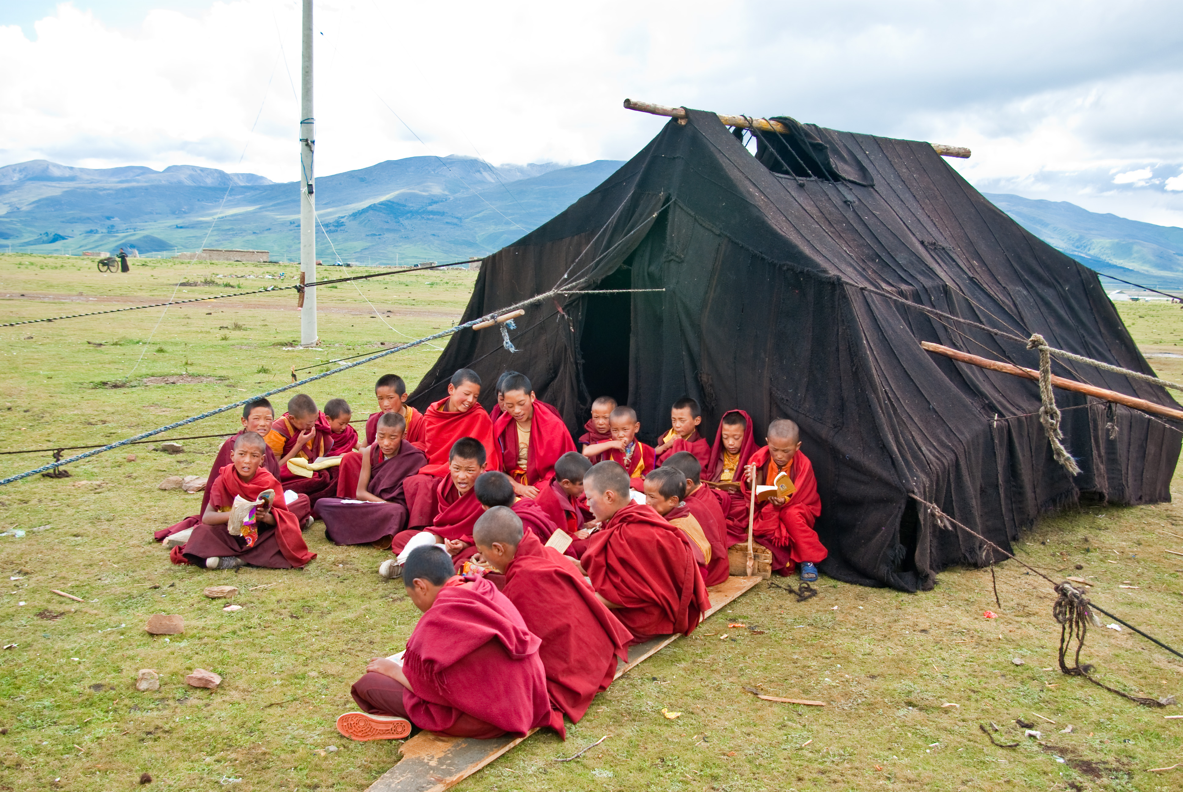 Litang Monastery (a nomad camp of the Litang monastery)